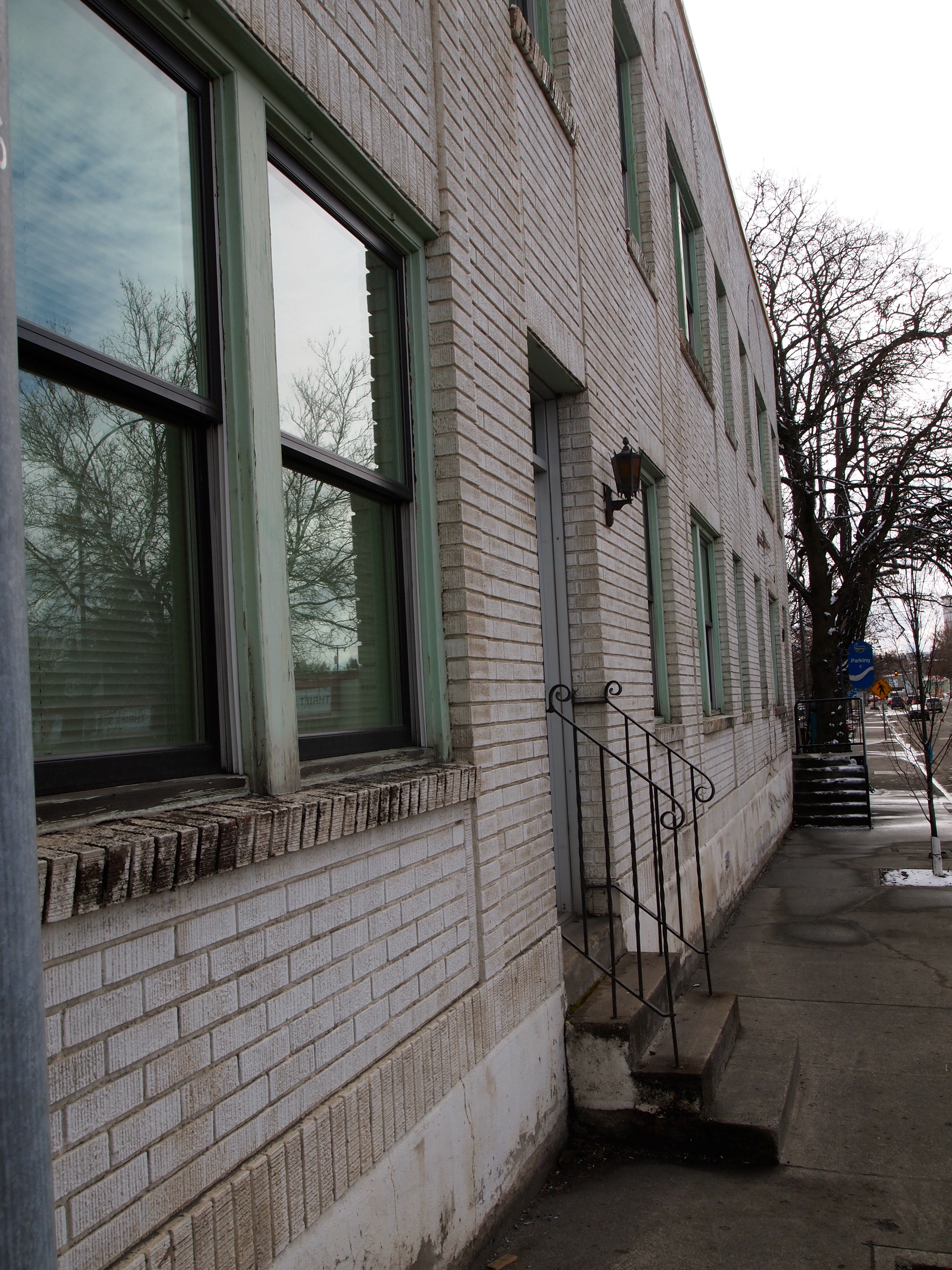 Architecture, Historic Preservation